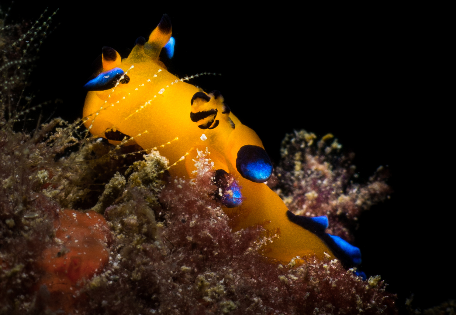 Pikachu Nudibranch (Thecacera pacifica) from Dibba Sea, East Coast of the United Arab Emirates, Gulf of Oman, 19 meters deep.